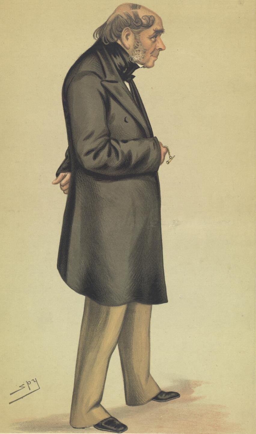 A portrait from the Welsh Portrait Collection at the National Library of Wales. Depicted person: Henry Bessemer – English engineer, inventor, and businessman